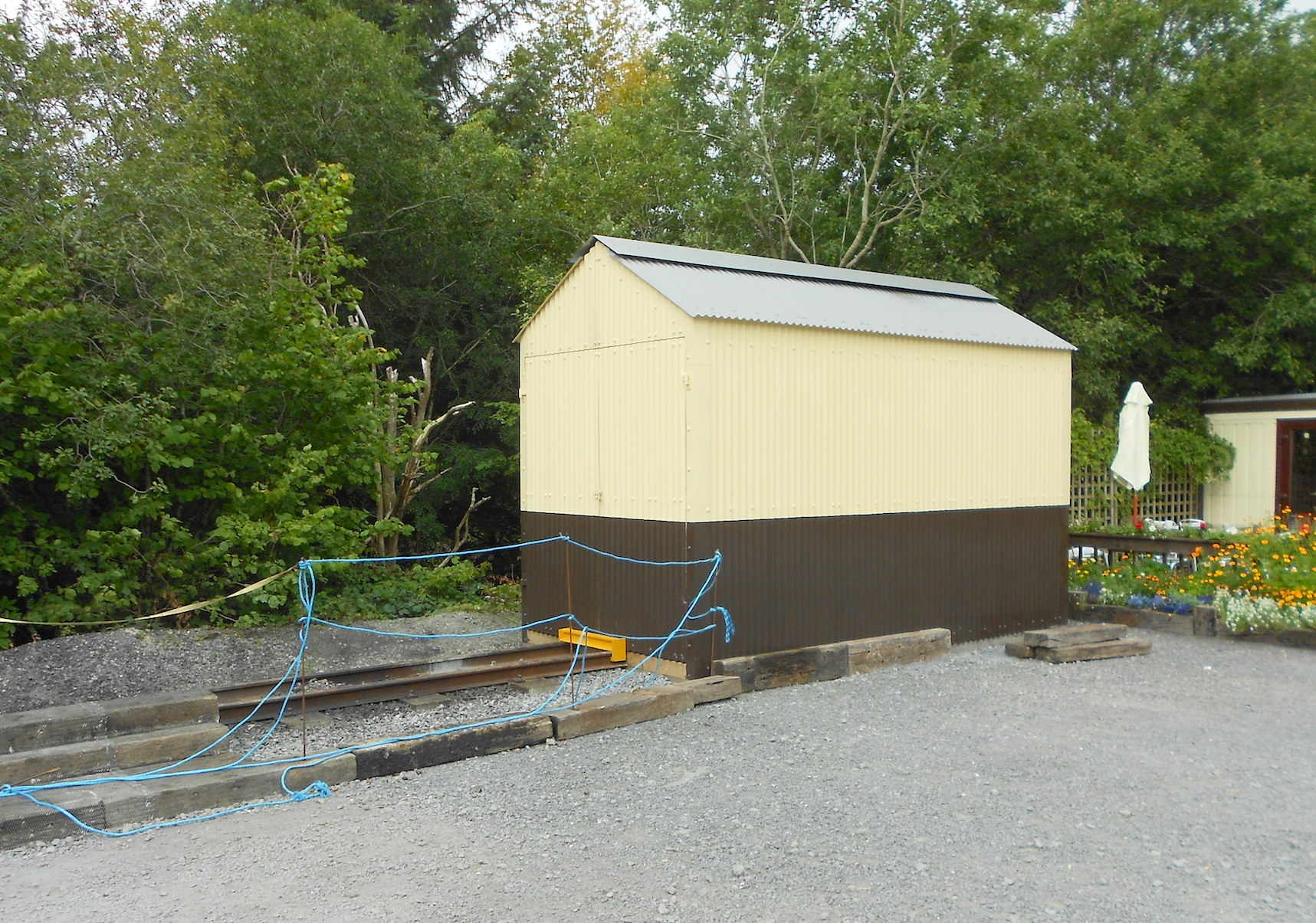 The small engine shed at Devil's Bridge railway station, which houses a light industrial tank engine.